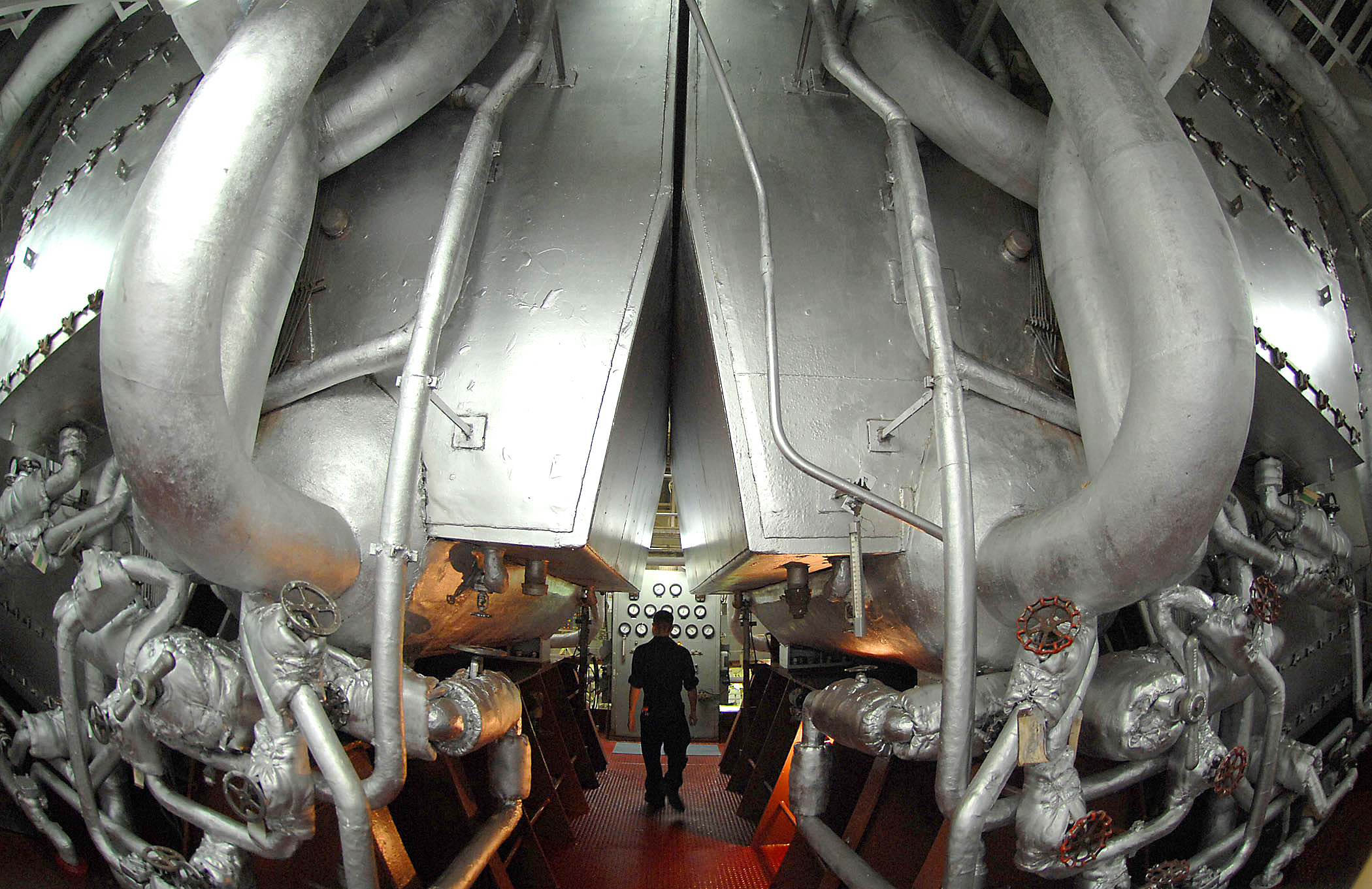 Engine room of the hospital ship USNS Comfort (T-AH-20)